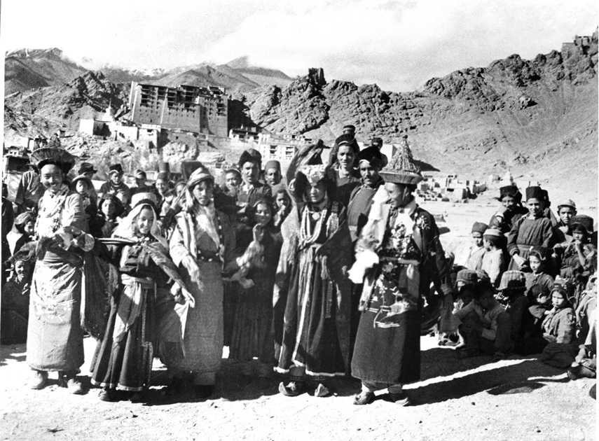 A wedding group with the bride and the bridegroom in the center, their fathers on the right and left, respectively, and the bride’s companion next to the bridegroom.